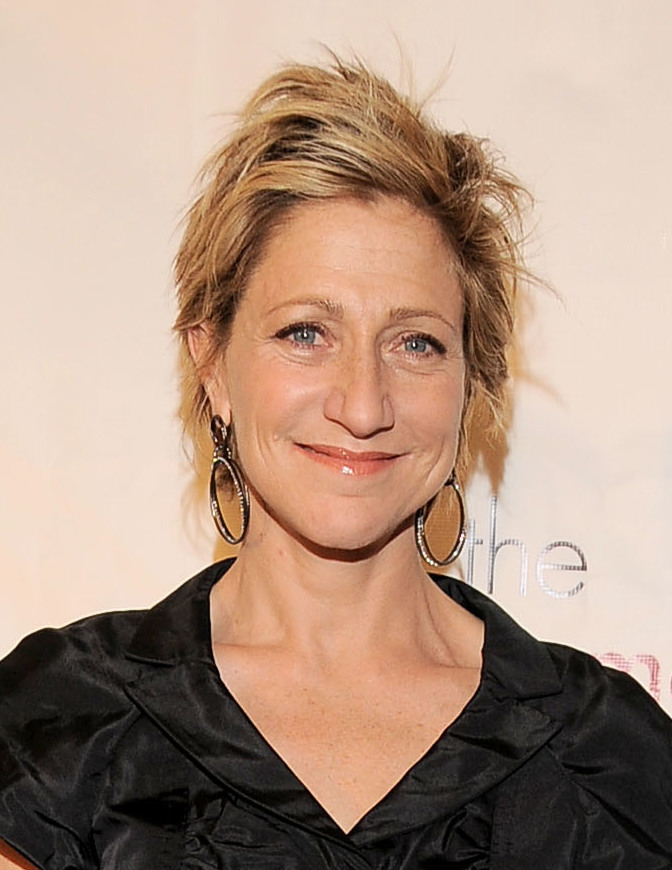 Edie Falco at the Drama League Benefit Gala Honoring Angela Lansbury, February 8, 2010. The Pierre, New York City.